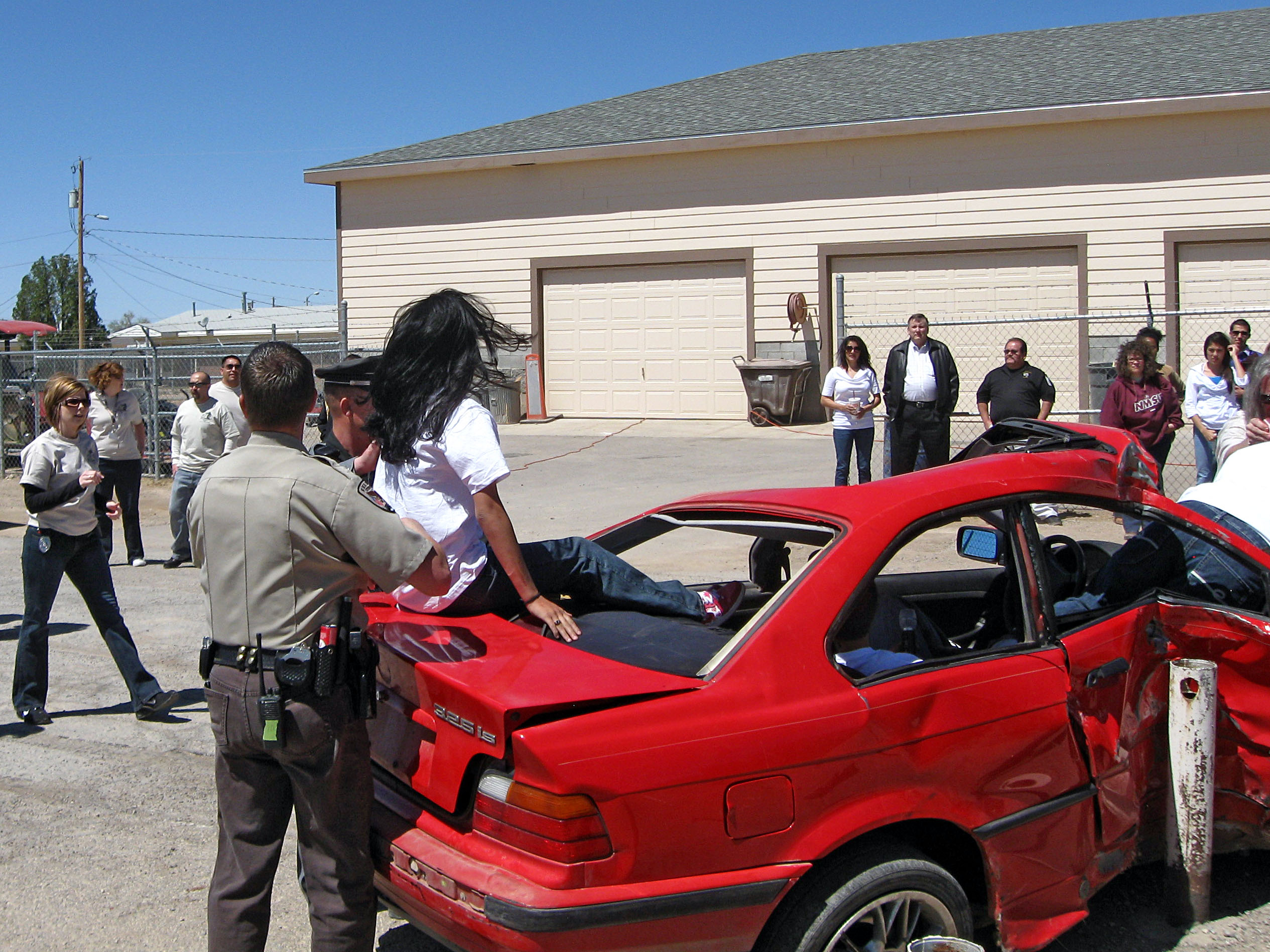 Placing "victims" at a simulated crash scene at Alamogordo (New Mexico) High School for Every 15 Minutes, a national anti-drunk-driving program.